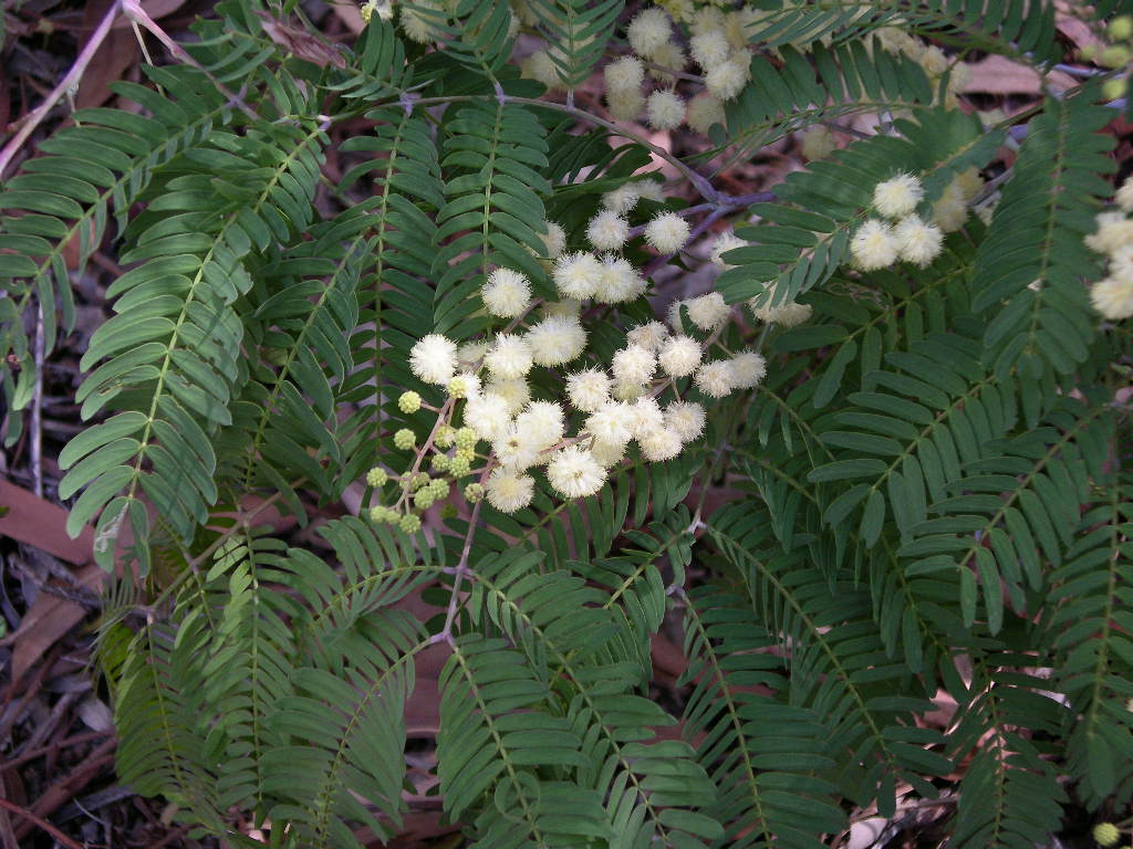 Acacia schinoides, Flowering in Jan 2005, Australian National Botanic Gardens.